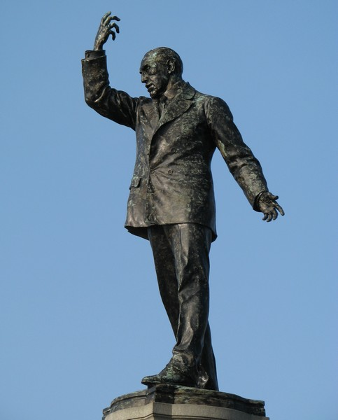 Carson statue, Parliament Buildings [3] A closer view of the Carson statue seen in 693322